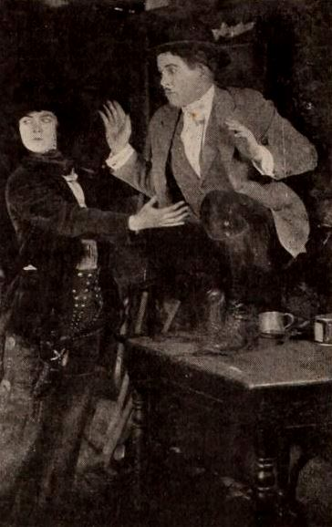 Still from the American western comedy film Nugget Nell (1919) with Dorothy Gish and Raymond Cannon (1892 – 1977), on page 52 of the August 9, 1919 Exhibitors Herald.